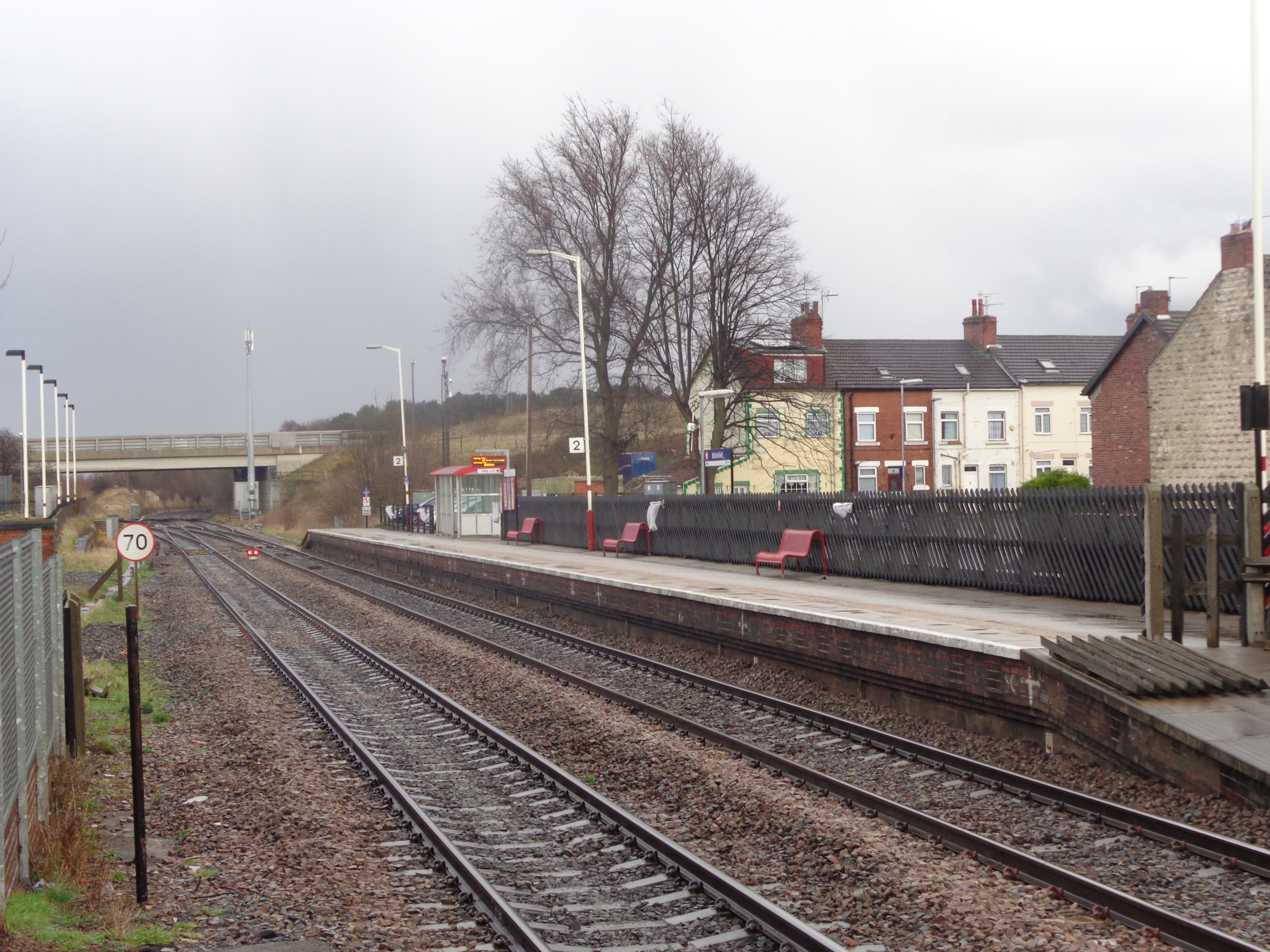 Micklefield railway station, Micklefield, Leeds, West Yorkshire. Taken on the afternoon of Saturday the 22nd of March 2014.